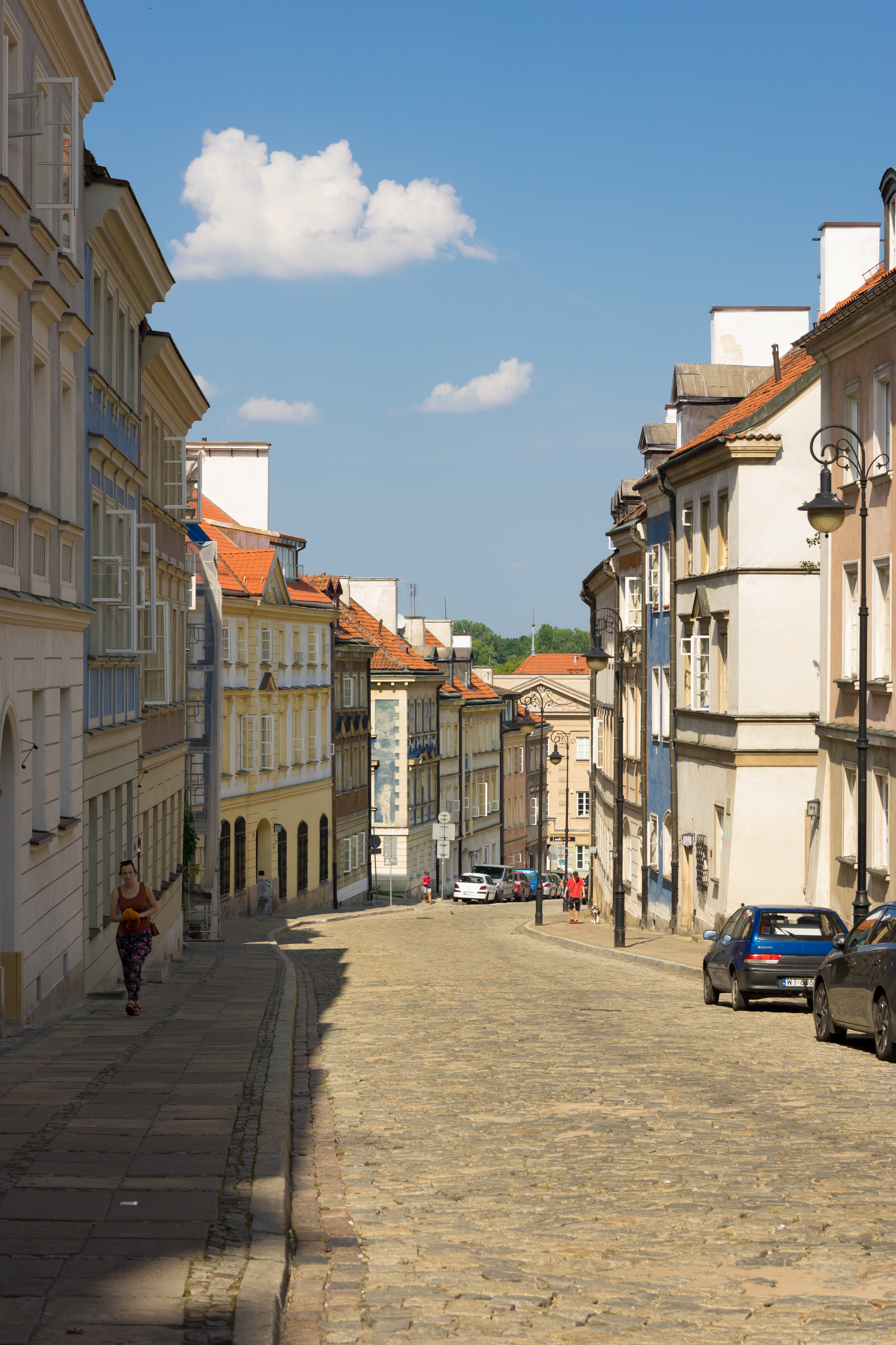 Mostowa Street in Warsaw's New Town - view from the Freta street